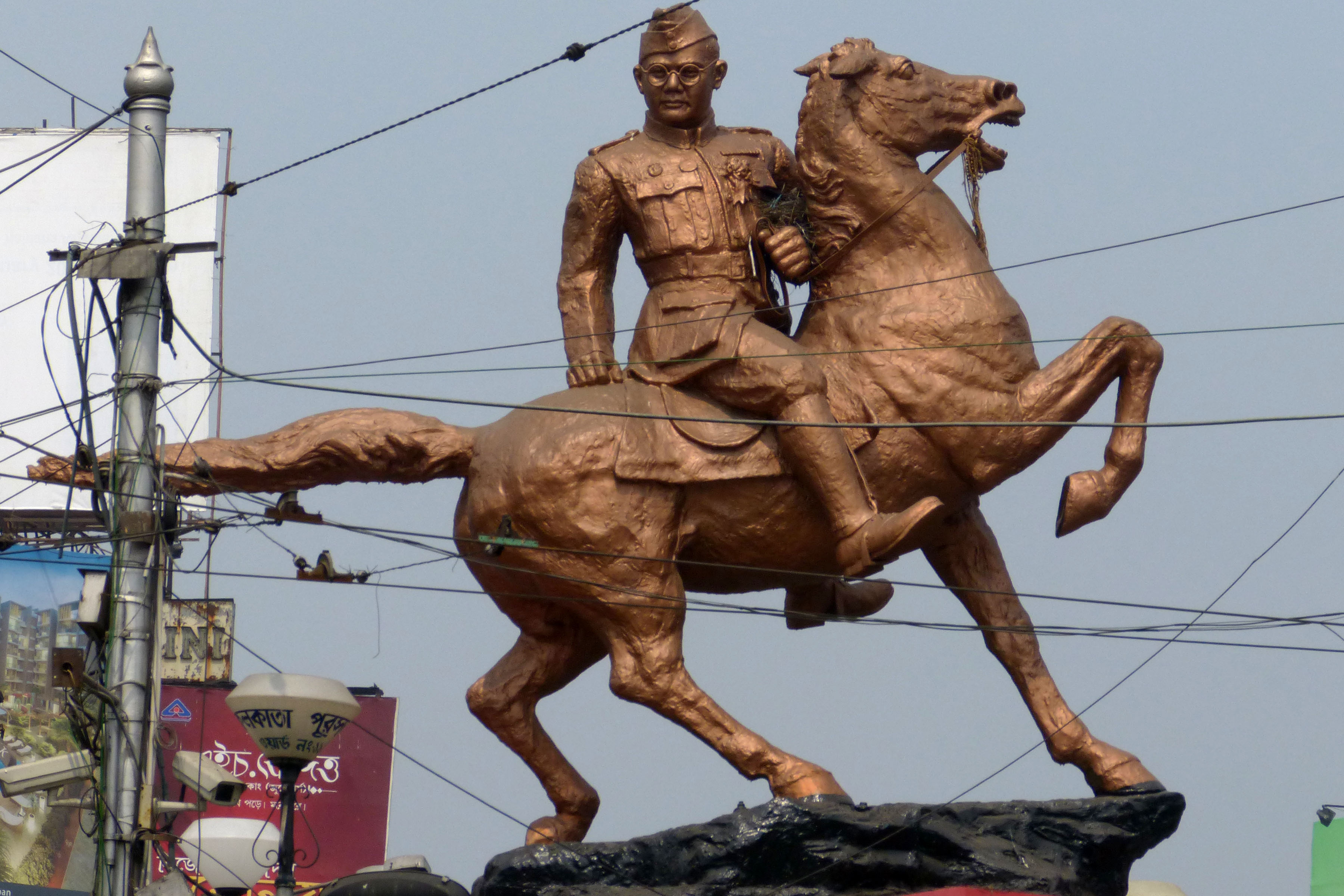 This photograph has been taken during the 'Wikipedia/Wikimedia Photowalk' event for the 'Wikipedia Takes Kolkata III' campaign on 23 February 2014, in northern part of Kolkata.